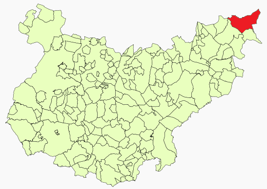 Helechosa de los Montes